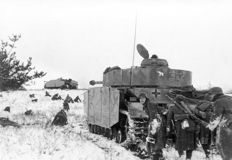 Information added by Wikimedia users.